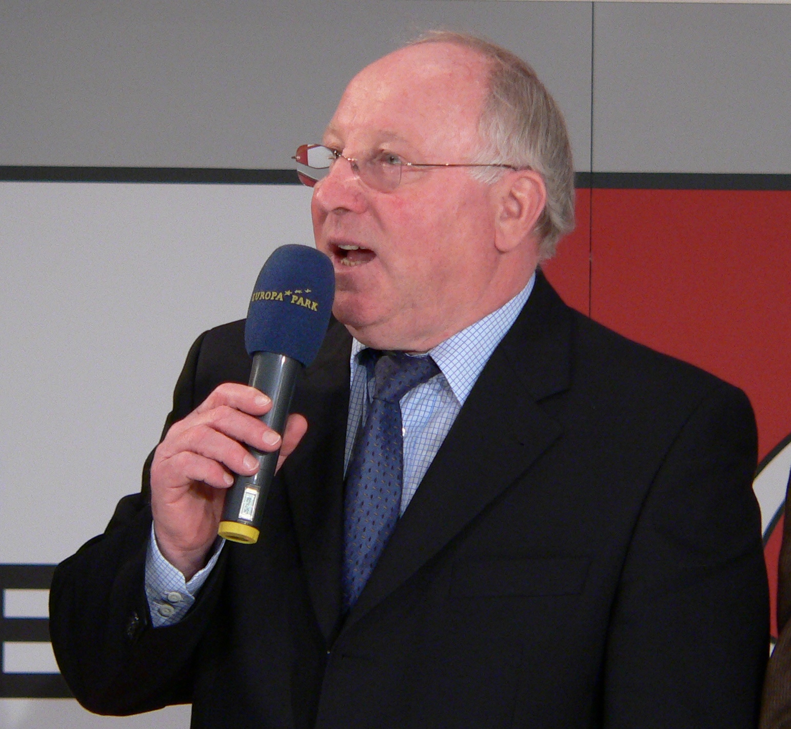 Uwe Seeler, a German manager and retired football player.